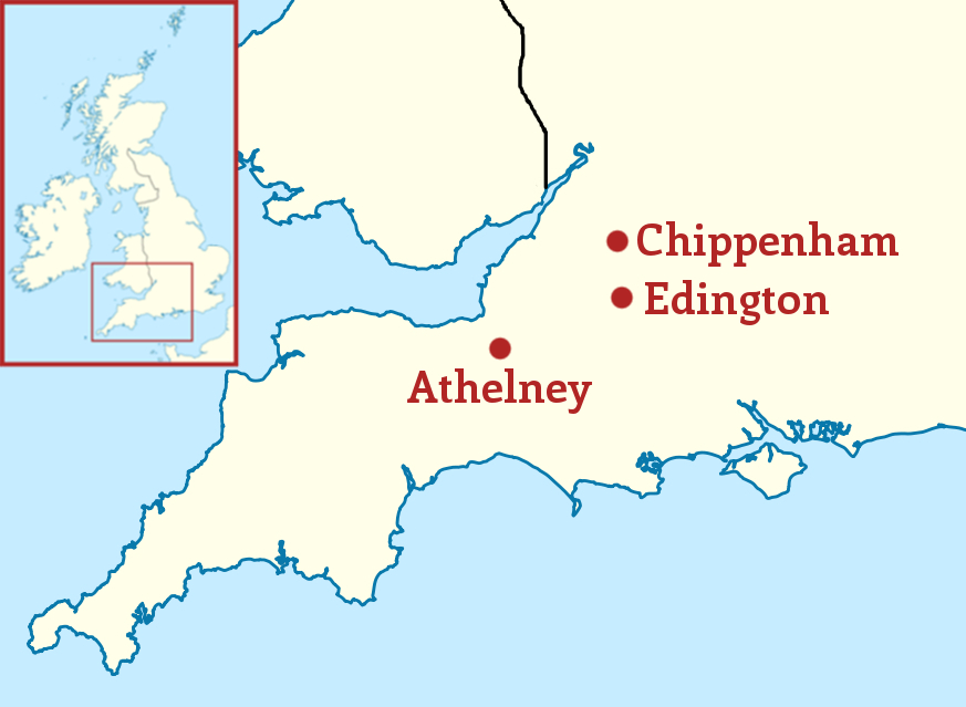 Key locations involved in King Alfred's interactions with the Great Heathen Army.